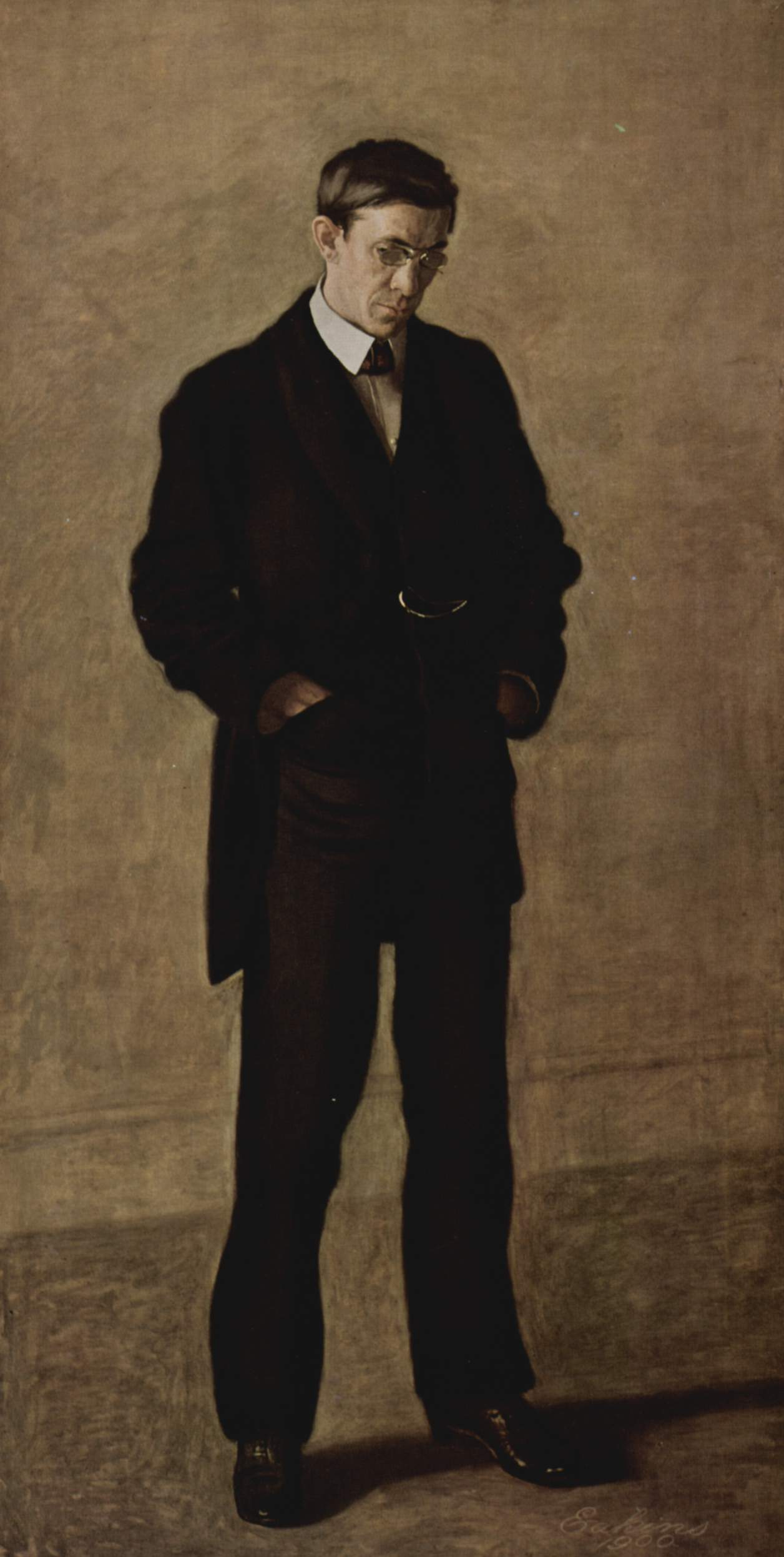 Depicted person: Louis N. Kenton – The husband of the artist's sister, Elizabeth Macdowell Kenton.